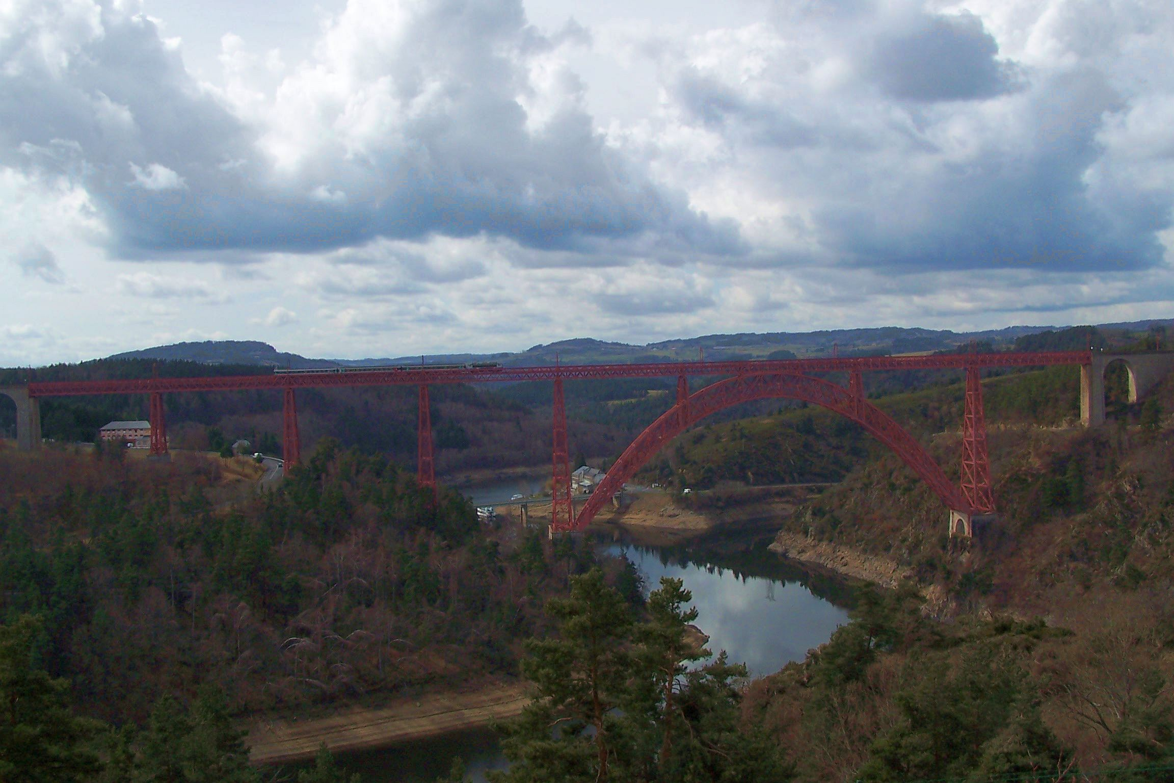 Shows a train travelling across the Garabit Viaduct in March 2010 probably at only 5 miles per hour.